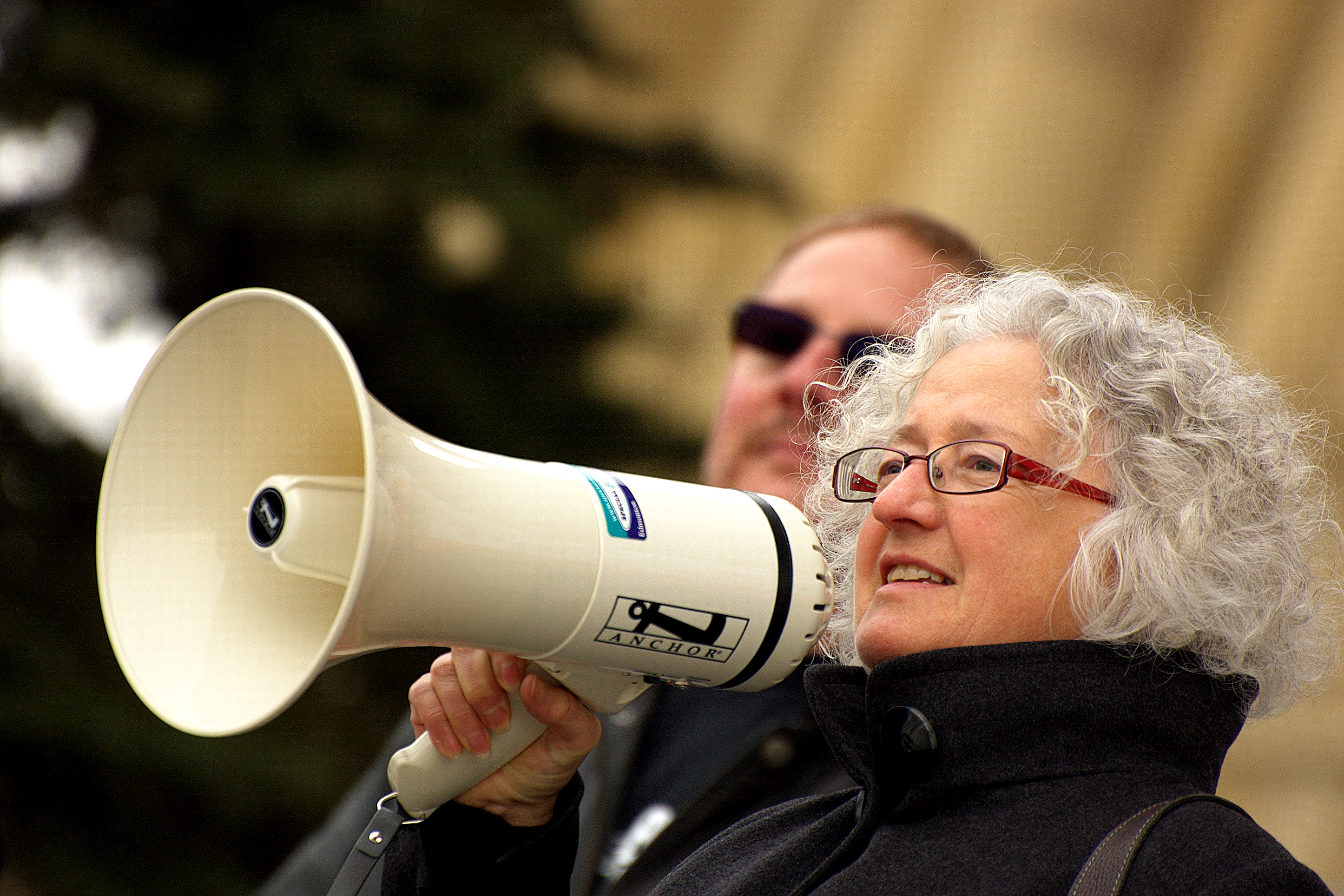 Edmonton-Strathcona MP Linda Duncan at the Alberta Legislature participating in a rally organized by RETA against the Heartland Transmission project.